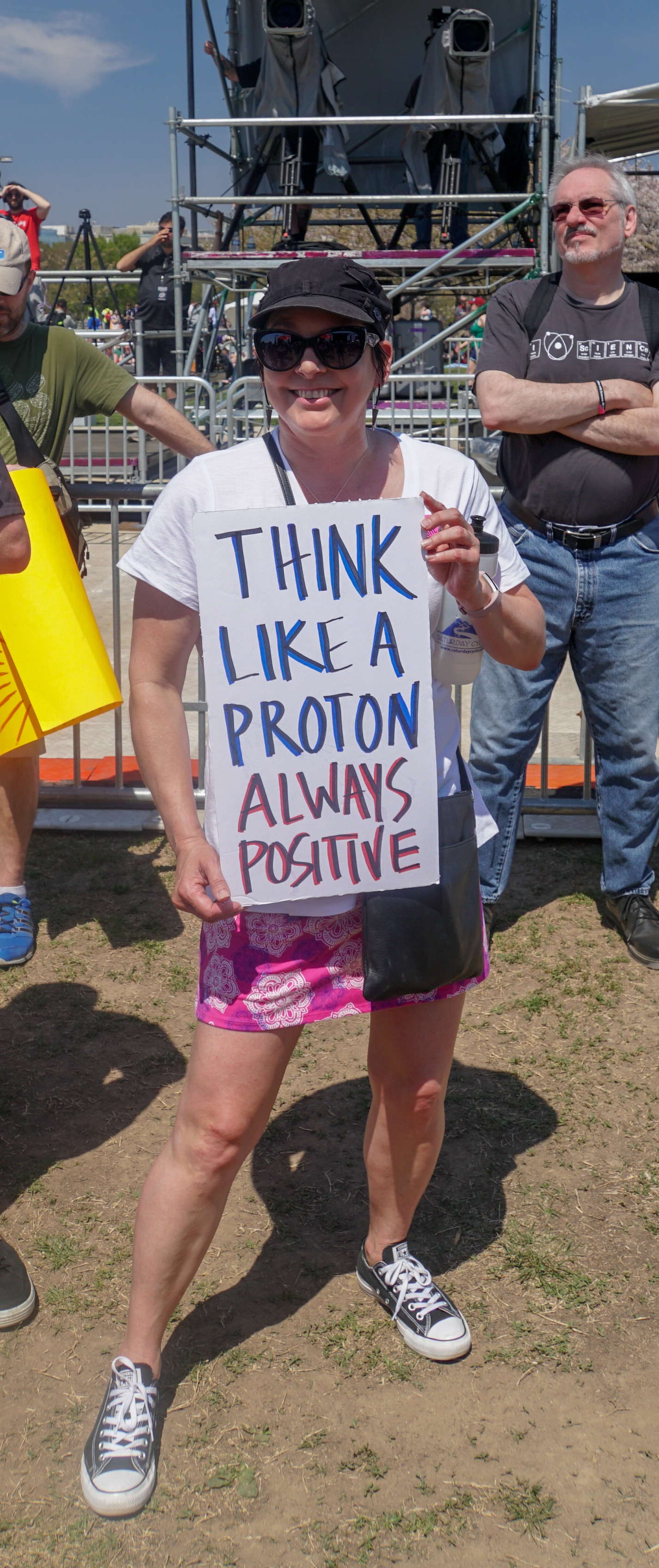 "Think Like a Proton, Always Positive"